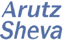 Arutz Sheva Israel National Radio